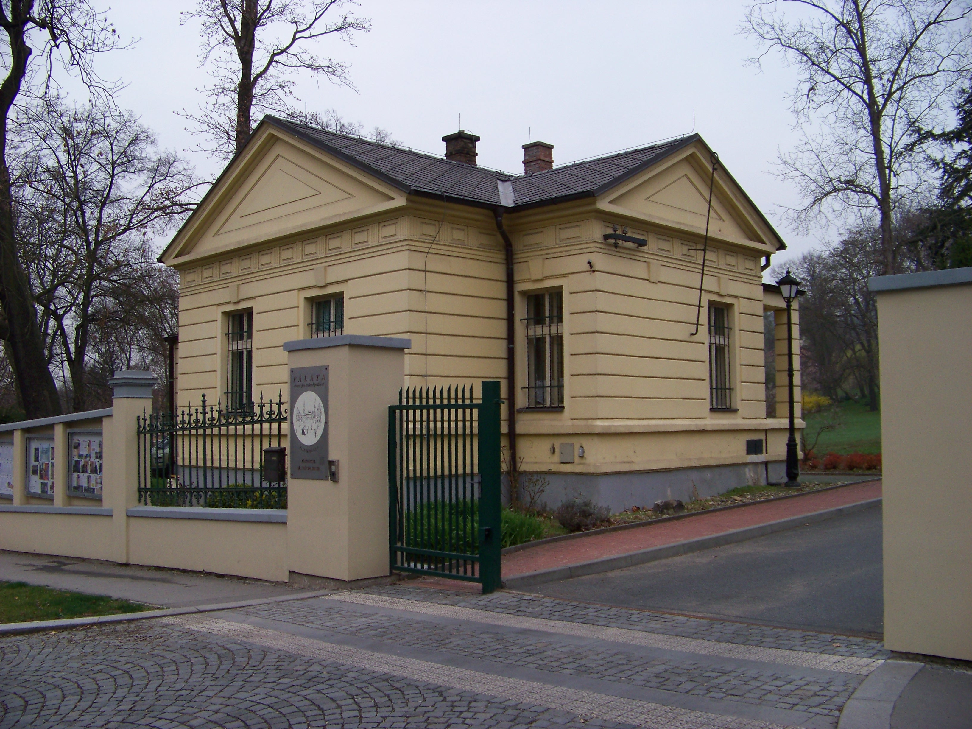 Prague-Smíchov, Czech Republic. Na Hřebenkách 737/5, Dolní Palata.